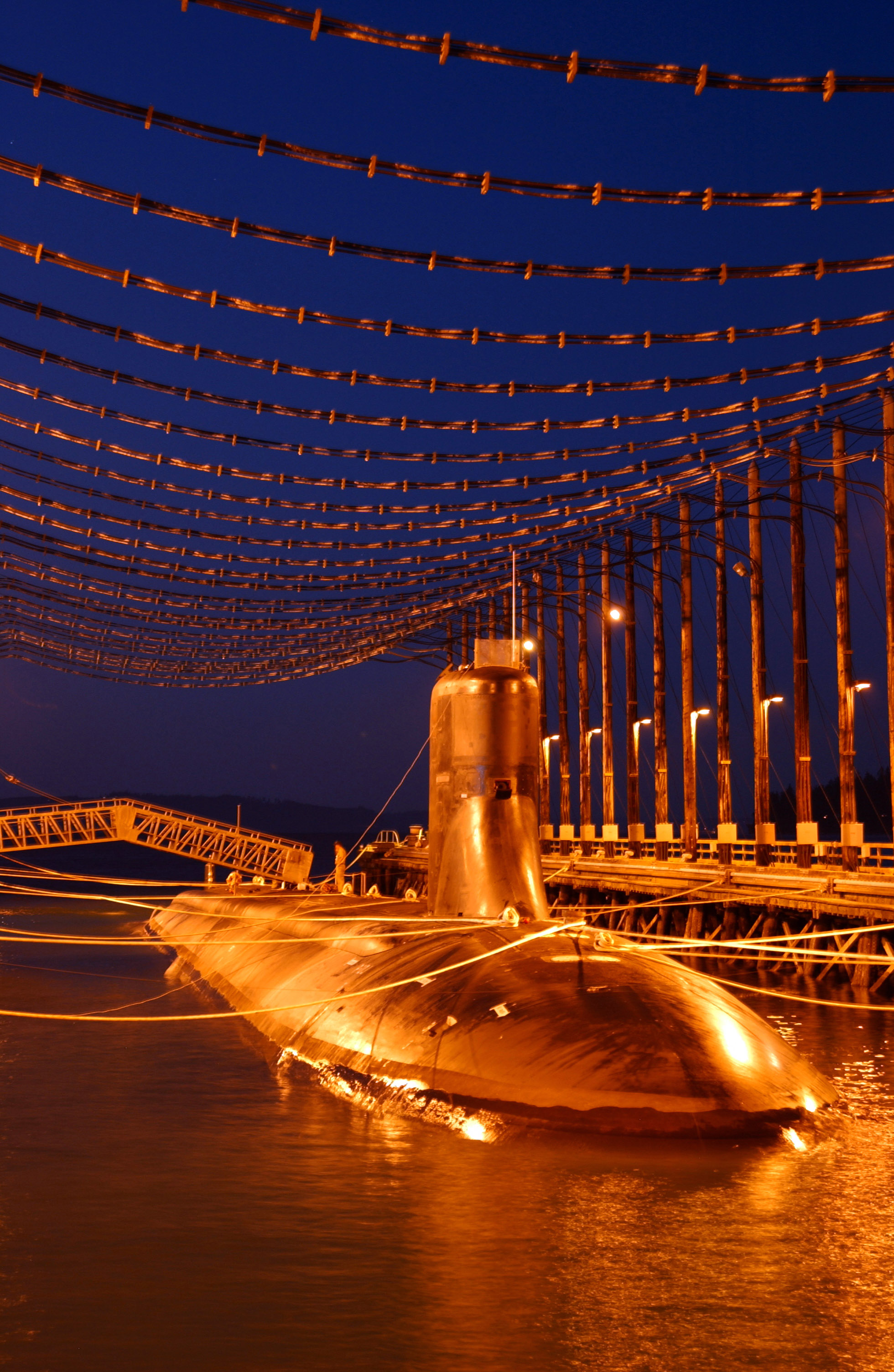 The Sea Wolf-class attack submarine USS Jimmy Carter (SSN 23) sits moored in the Magnetic Silencing Facility at Naval Base Kitsap Bangor for her first deperming treatment. The deperming process reduces a ships electromagnetic signature as she travels through the water. Jimmy Carter is the third and final submarine of the Sea Wolf-class. A unique feature of the Jimmy Carter is a 100-foot hull extension called the Multi-Mission Platform, which provides enhanced payload capabilities, enabling the submarine to accommodate the advanced technology required to develop and test a new generation of weapons, sensors and undersea vehicles.